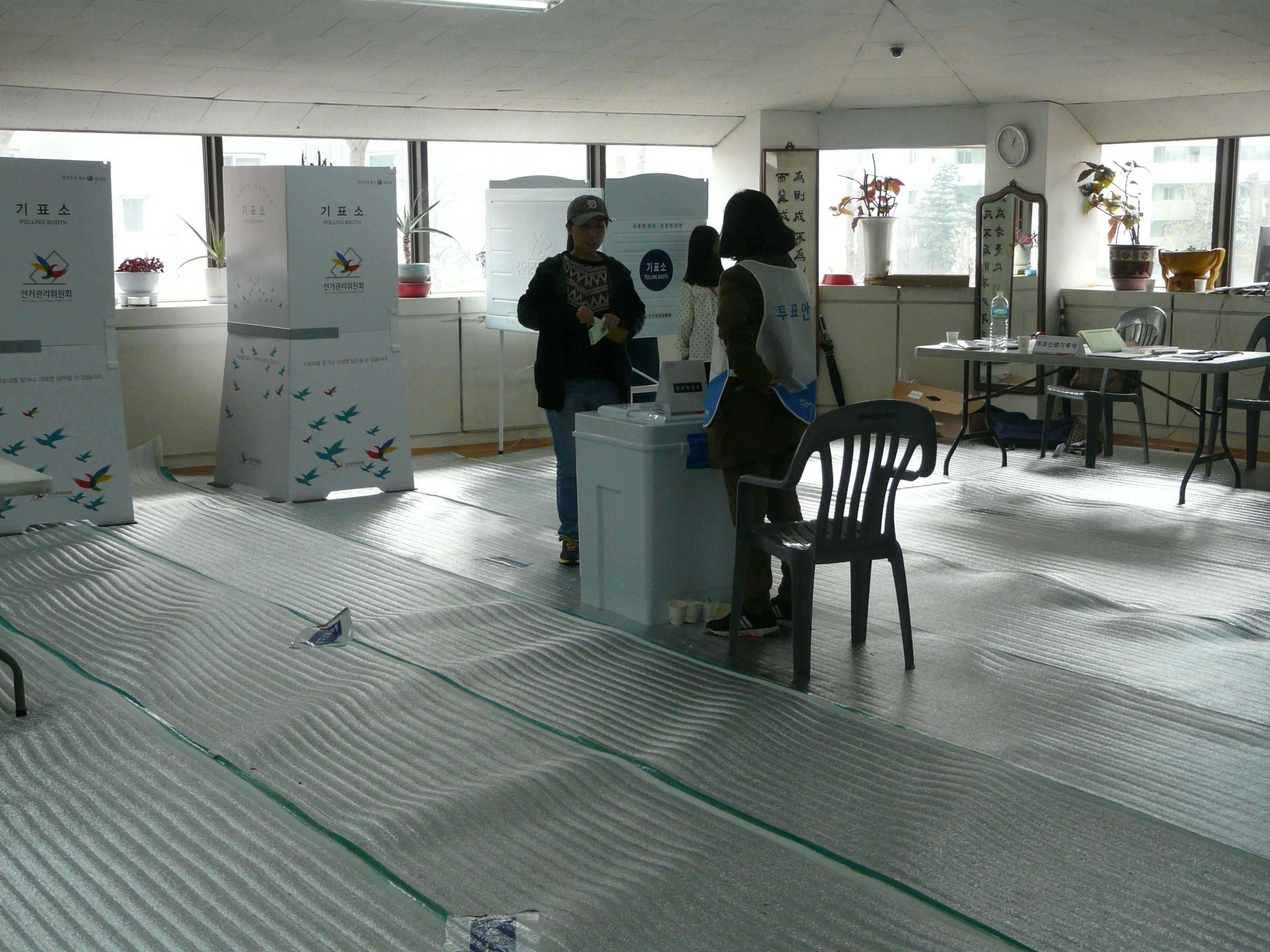 Voting during South Korean legislative election, 2016